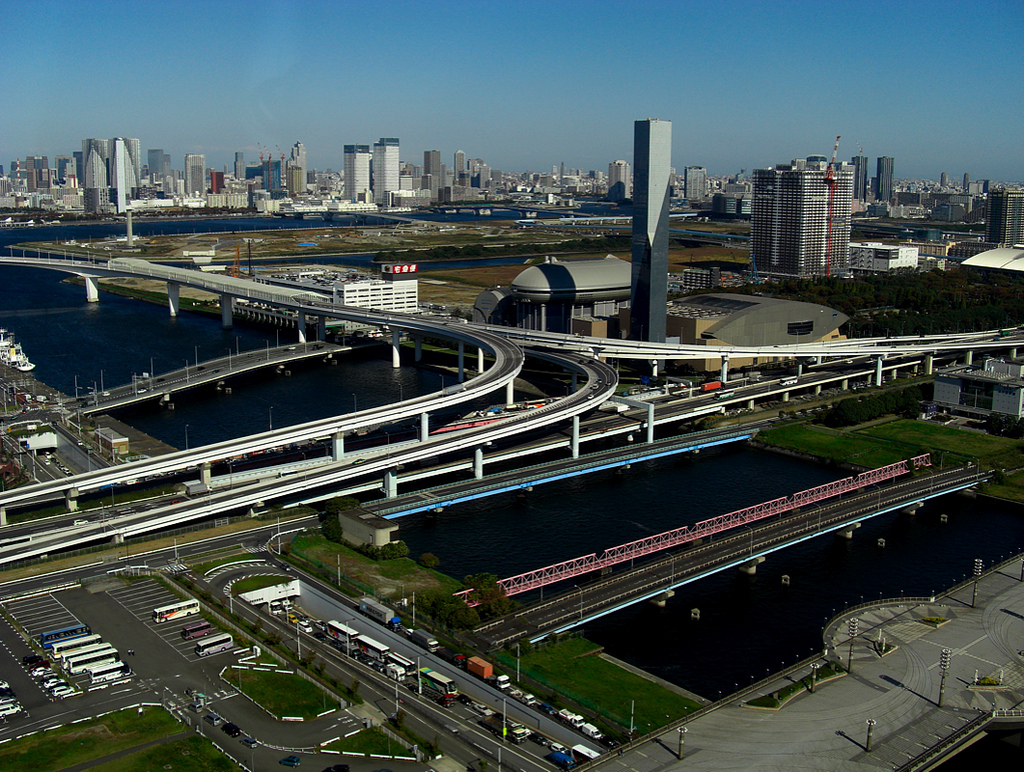 Ariake Junction in Ariake, Tokyo, Japan